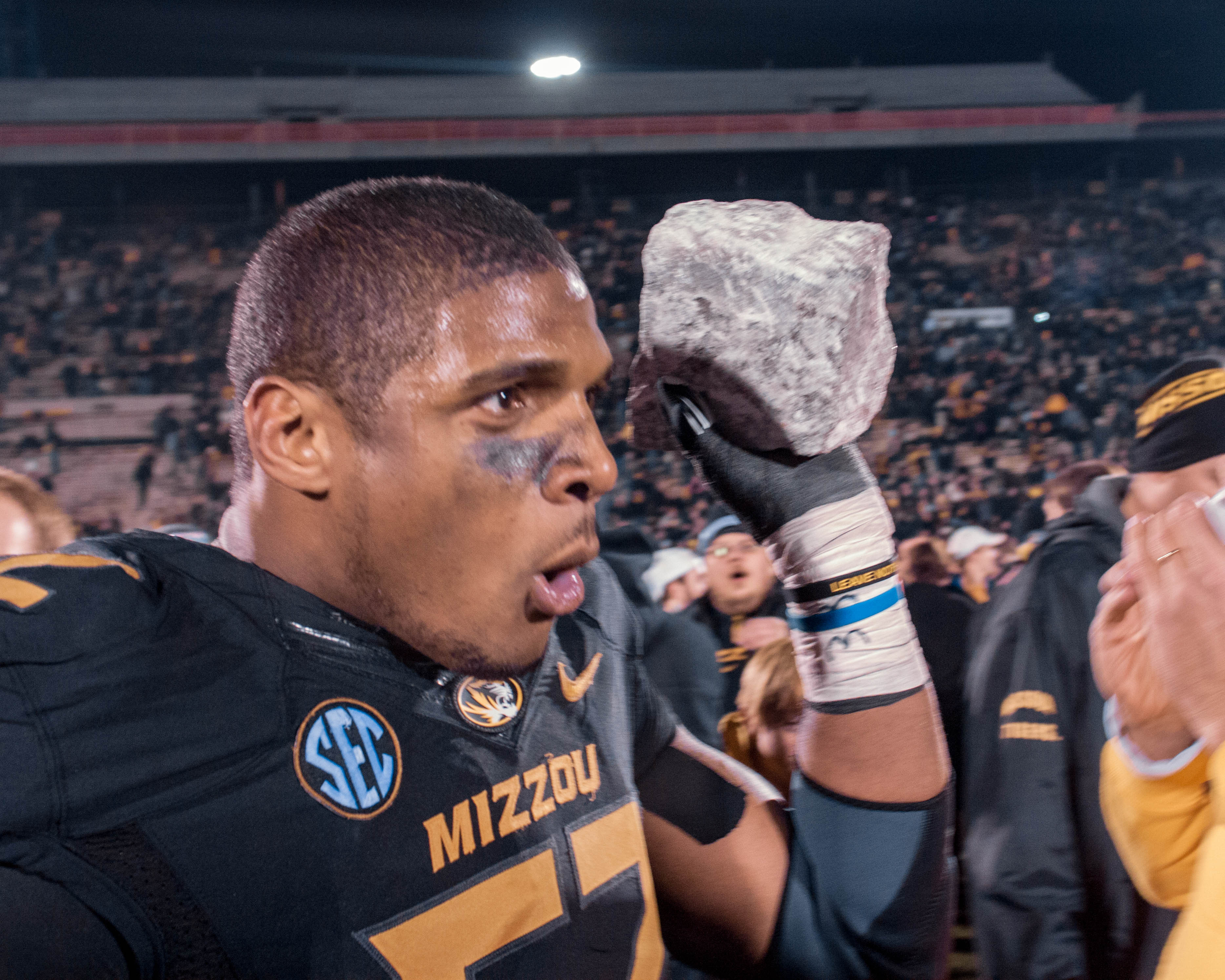 Fans flock senior defensive end Michael Sam as he carries his souvenir (a rock from the rock 'M' at Memorial Stadium) after the win vs Texas A&M.